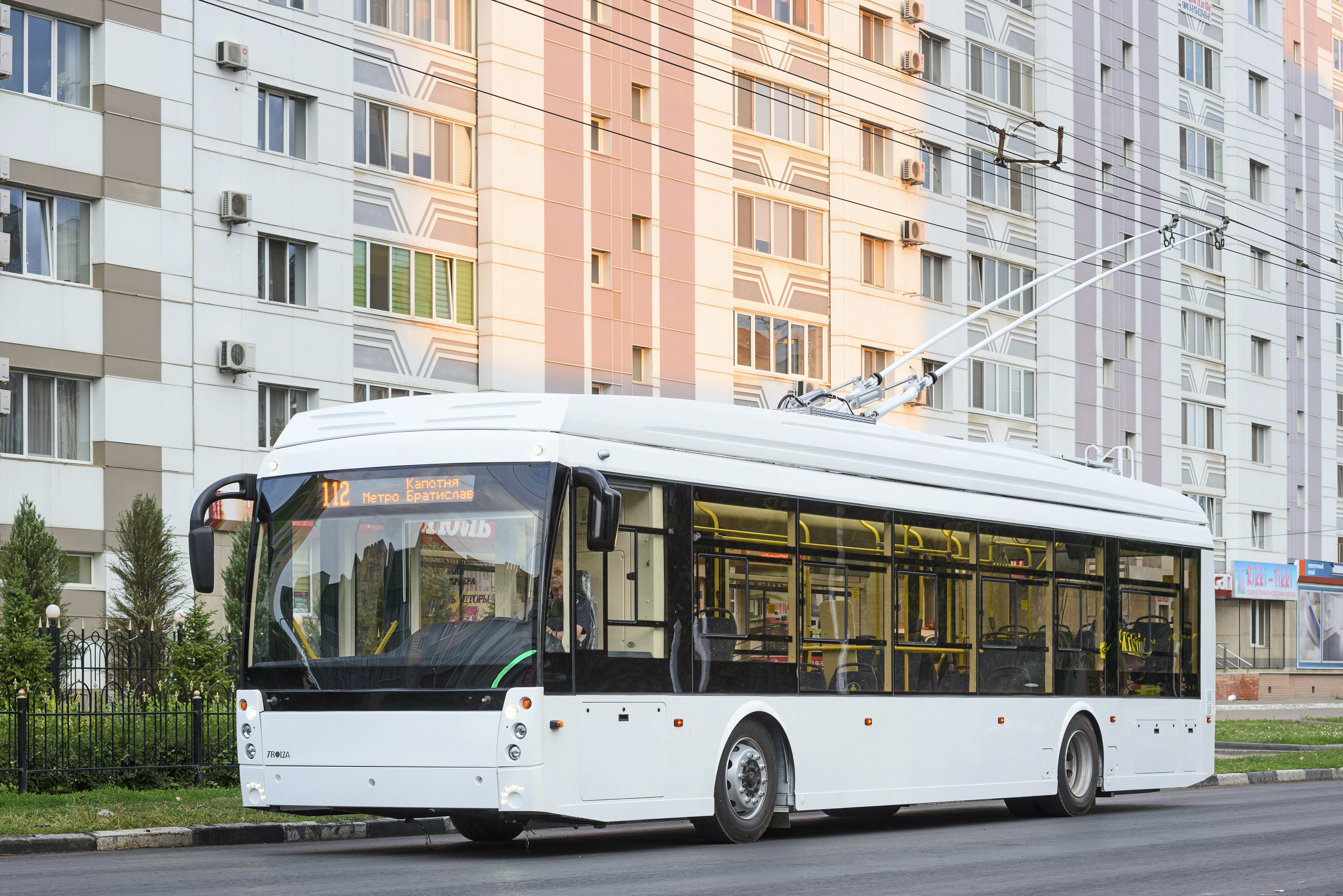 Trolza-5265 "Megapolis".